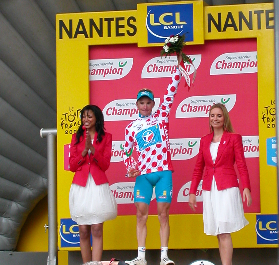 Thomas Voeckler puts on the polka dots jersey at the arrival of the Tour de France 2008's 3rd stage in Nantes